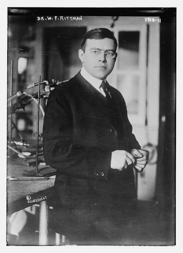 Walter Frank Rittman circa 1916